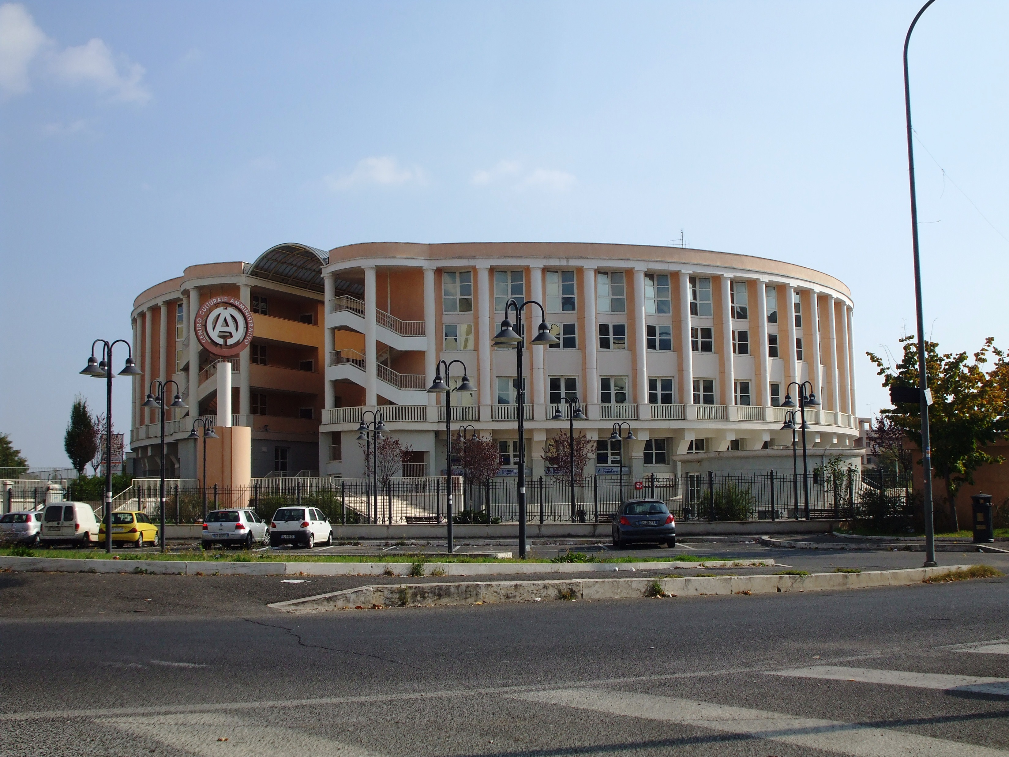 Velletri, cultur center